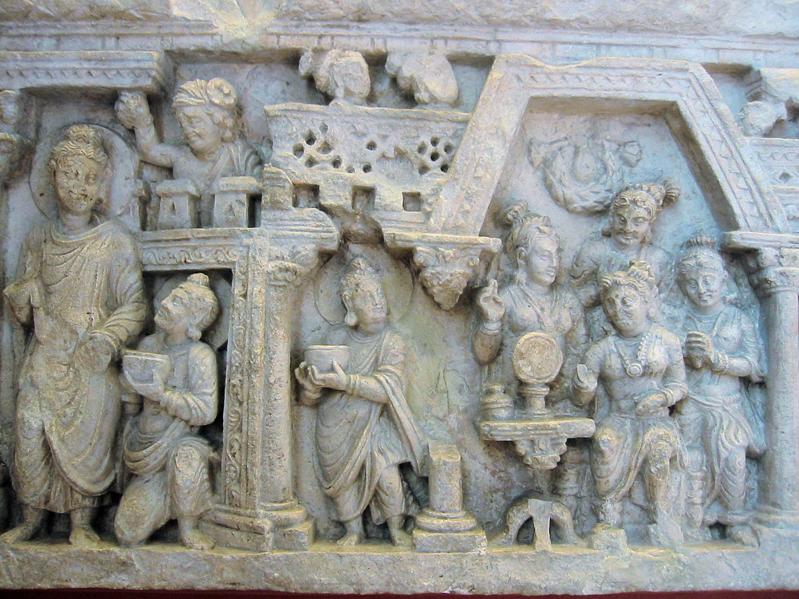 Panel showing the conversion of Prince Nanda, the younger half-brother of the Buddha.